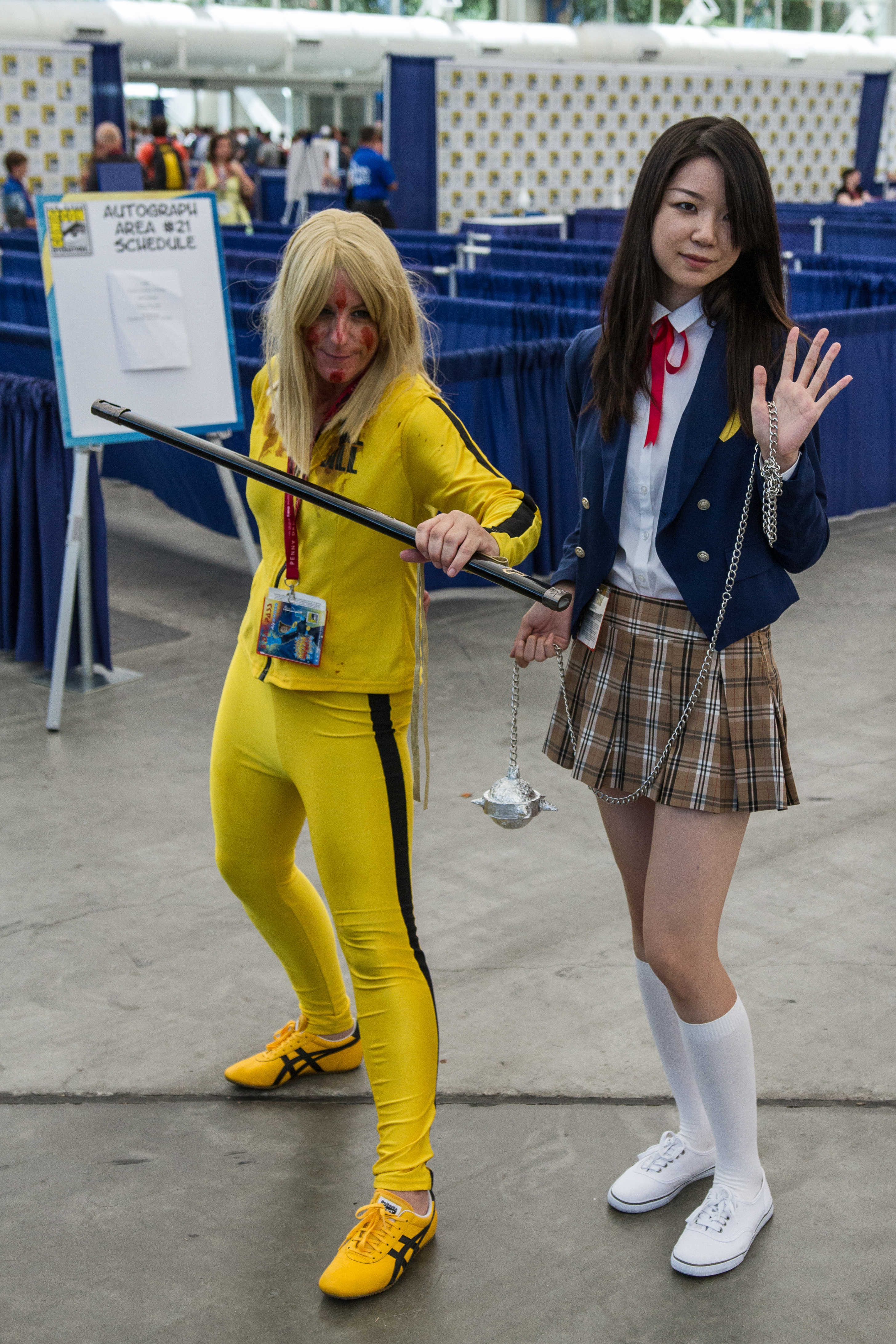 Cosplay at San Diego Comic-Con (SDCC 2014).